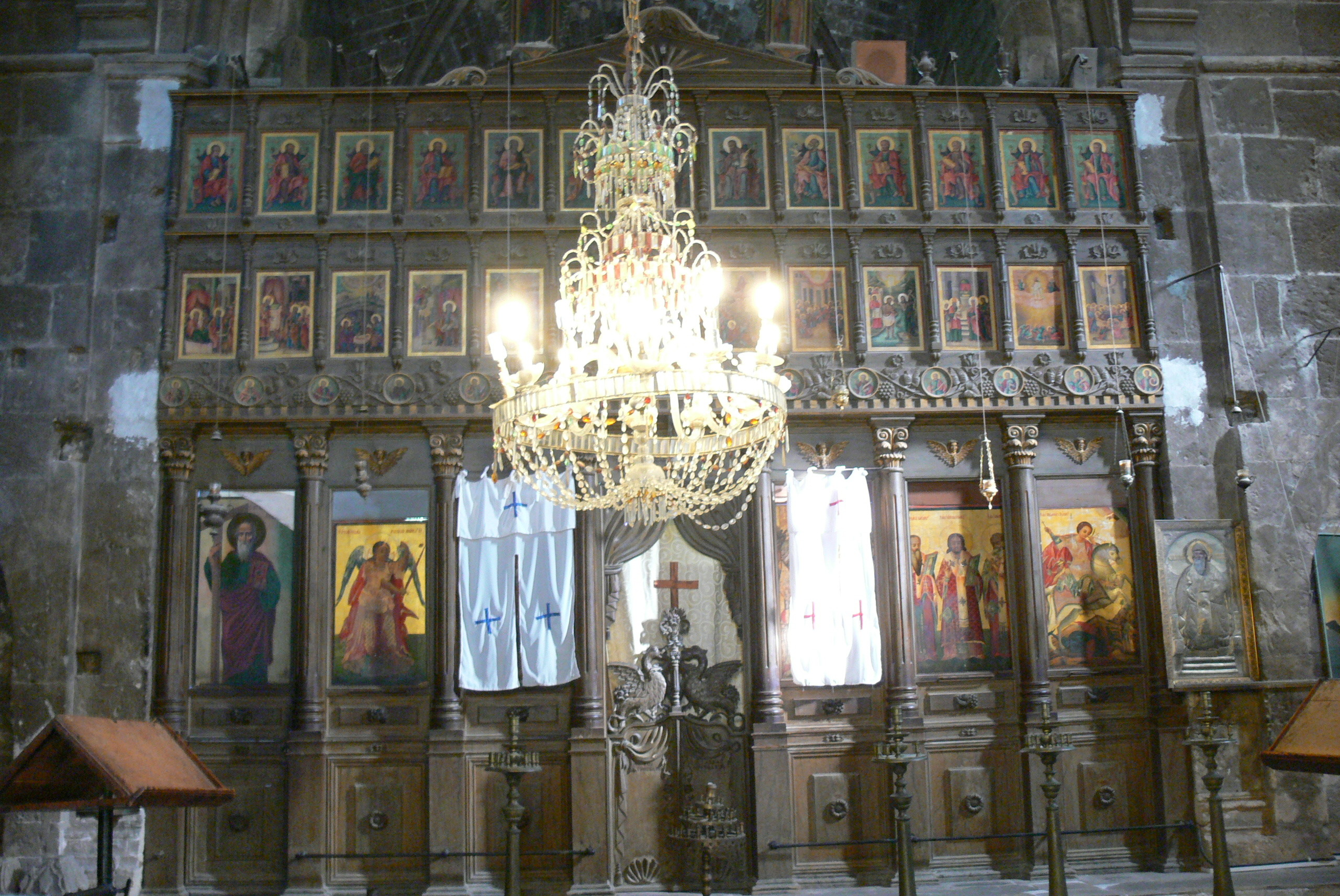 Bellapais monastery (Northern Cyprus). Abbey church (1270) - Iconostasis (1884).